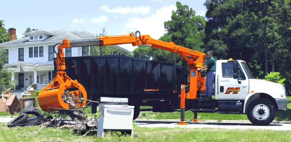 Grapple truck picking up waste in the US